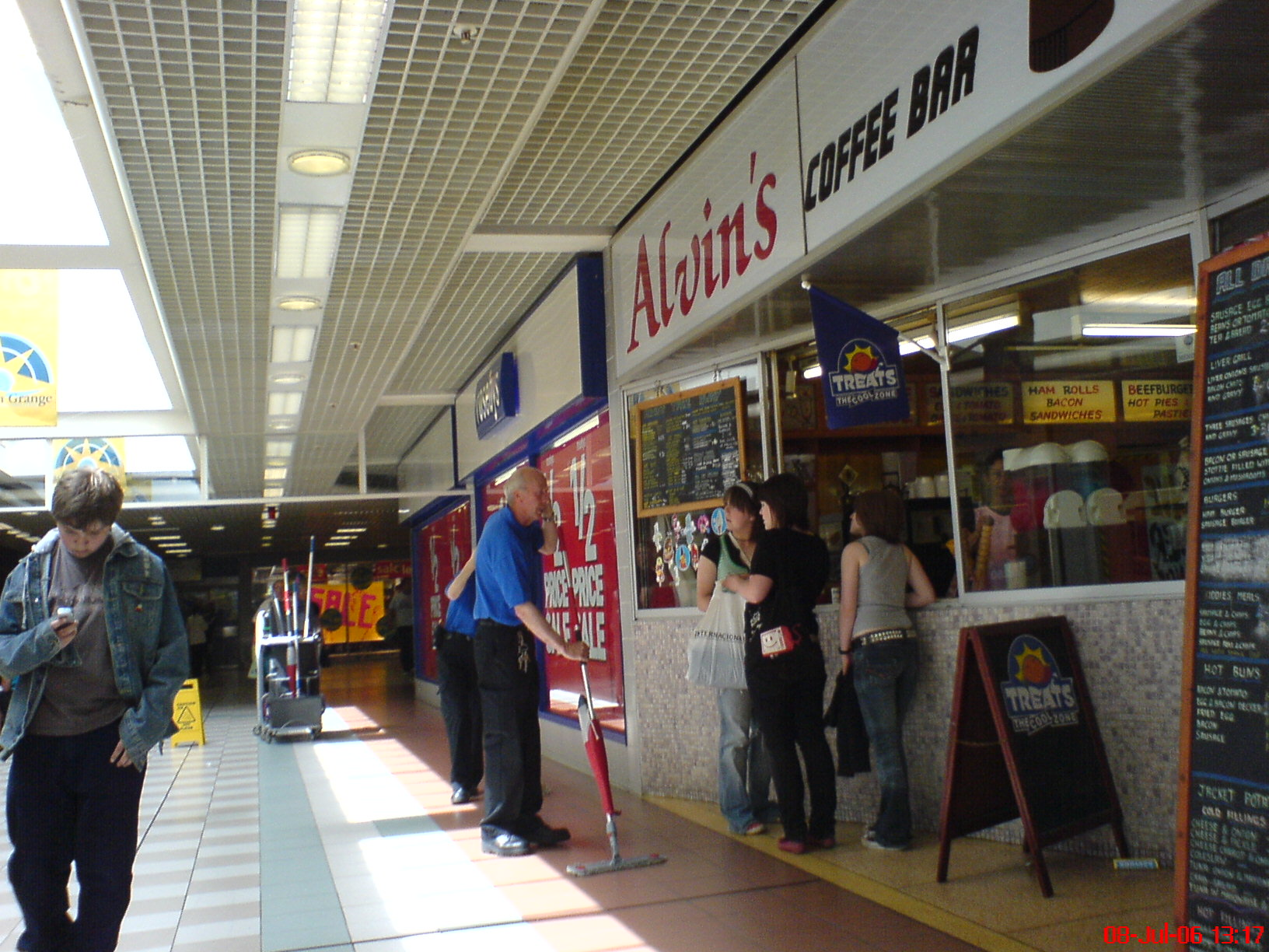 Middleton Grange Shopping Centre in Hartlepool